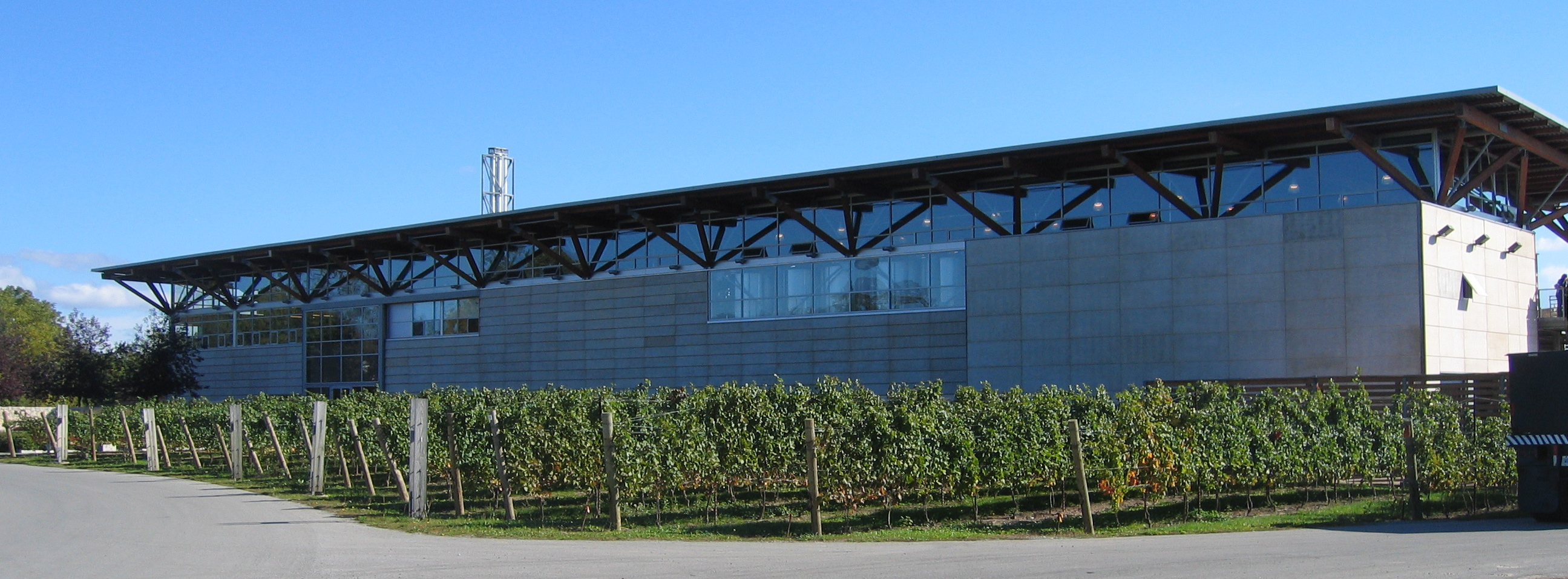 Jackson-Triggs winery in Niagara, Ontario, Canada